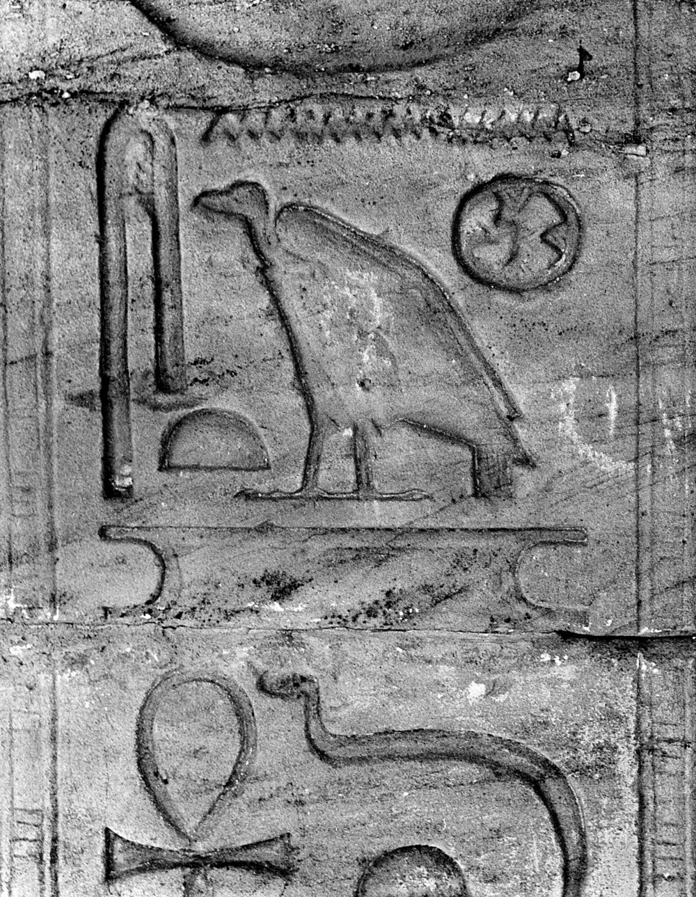 Temple founded by Tuthmosis III and Amenophis II of the XVIIIth dynasty ( 1504 - 1425 B.B.). Inscriptions on this pillar in the hypostyle hall concern the lord of the Island of Biggeh. the temple could be moved to a neighbouring oasis.